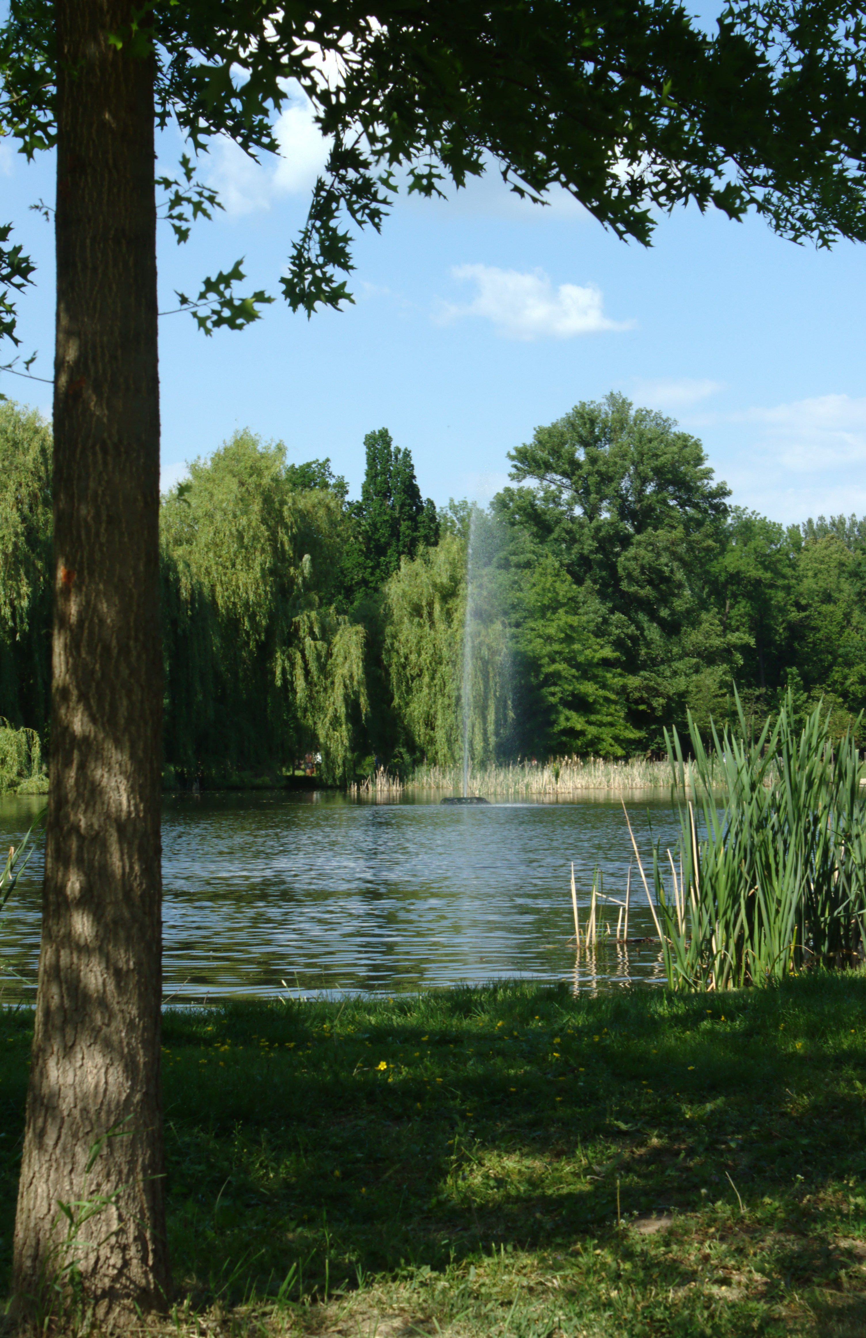 A fountain in the Stromovka park, Prague, CZ